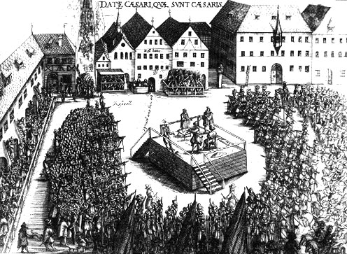 The execution of Vinzenz Fettmilchs at the Roßmarkt in Frankfurt am Main on February 28, 1616, woodcut 1616; INSCRIPTION: DATE CAESARI QUAE SUNT CAESARIS - Render unto Caesar (the things) that are Caesar's